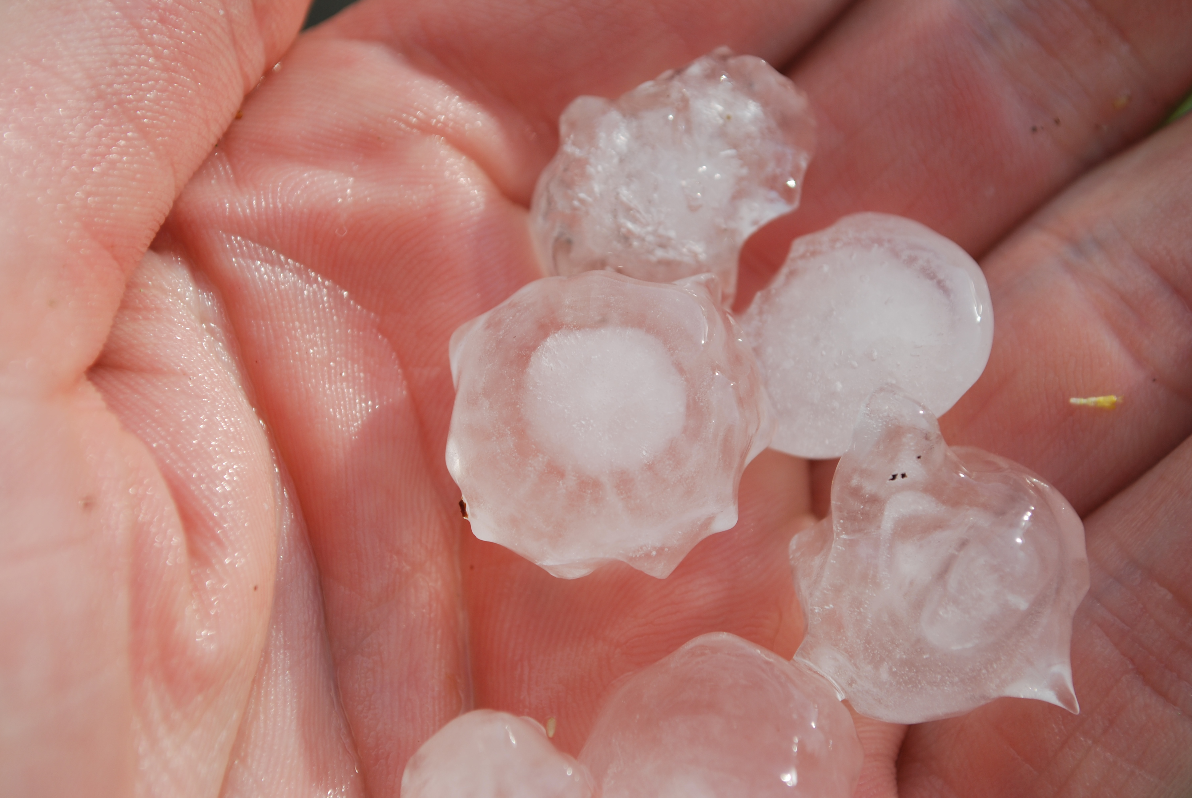 Detail view to the hail